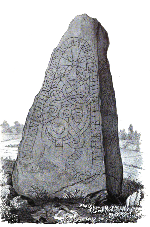 The runestone U 60. The inscription reads kirRþu þRir utr × lRt + rnesn × s=tnea + iftRr + bira fnþur + RkRkriþnr × hna × ohr × irfRkR uRþa × h...-...þ. In English "... Oddr had the stone raised in memory of Bjôrn, Ingifríðr's father. He was Viði's/Víði's heir ..."